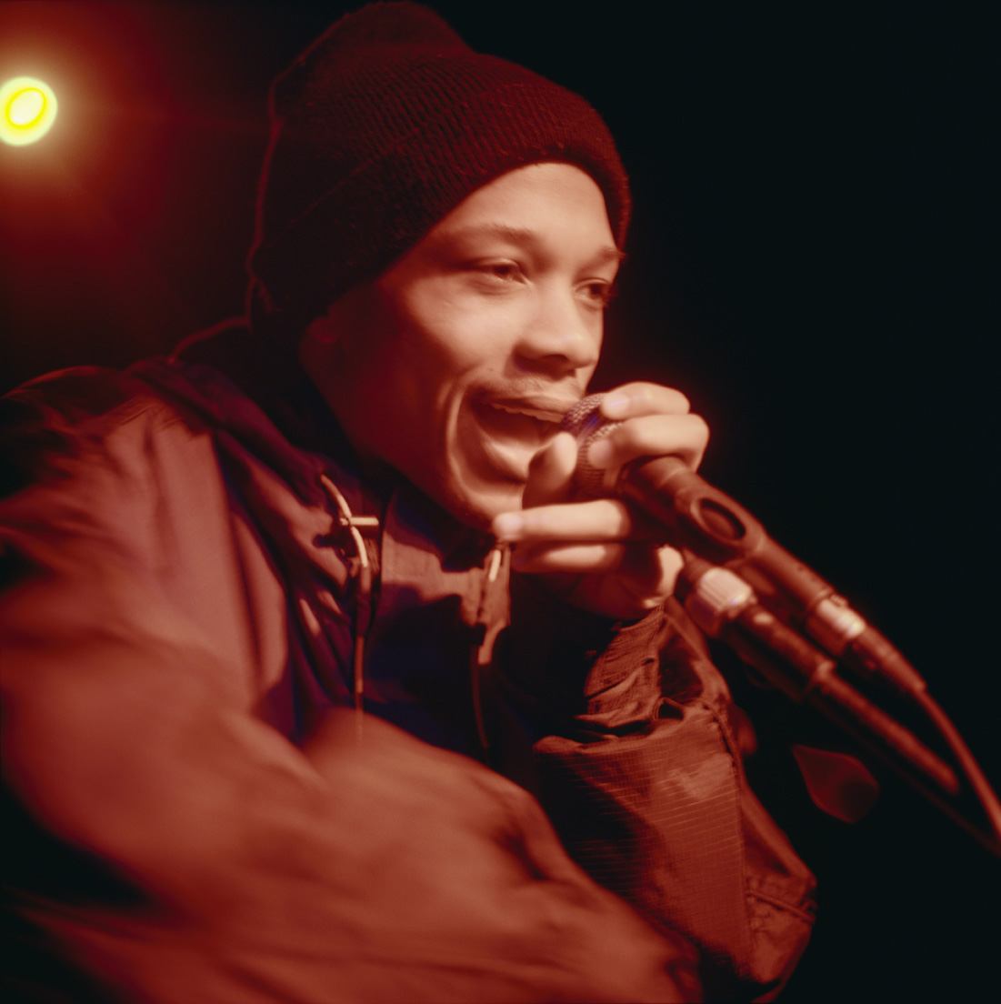 Matsa Ace in Hamburg/Germany 2002